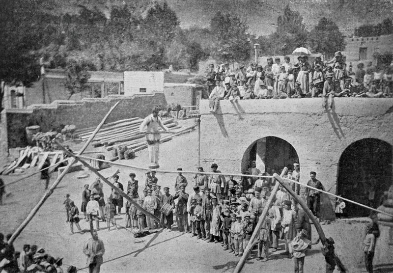 Tightrope walkers in front of Saint Garabed in Mush